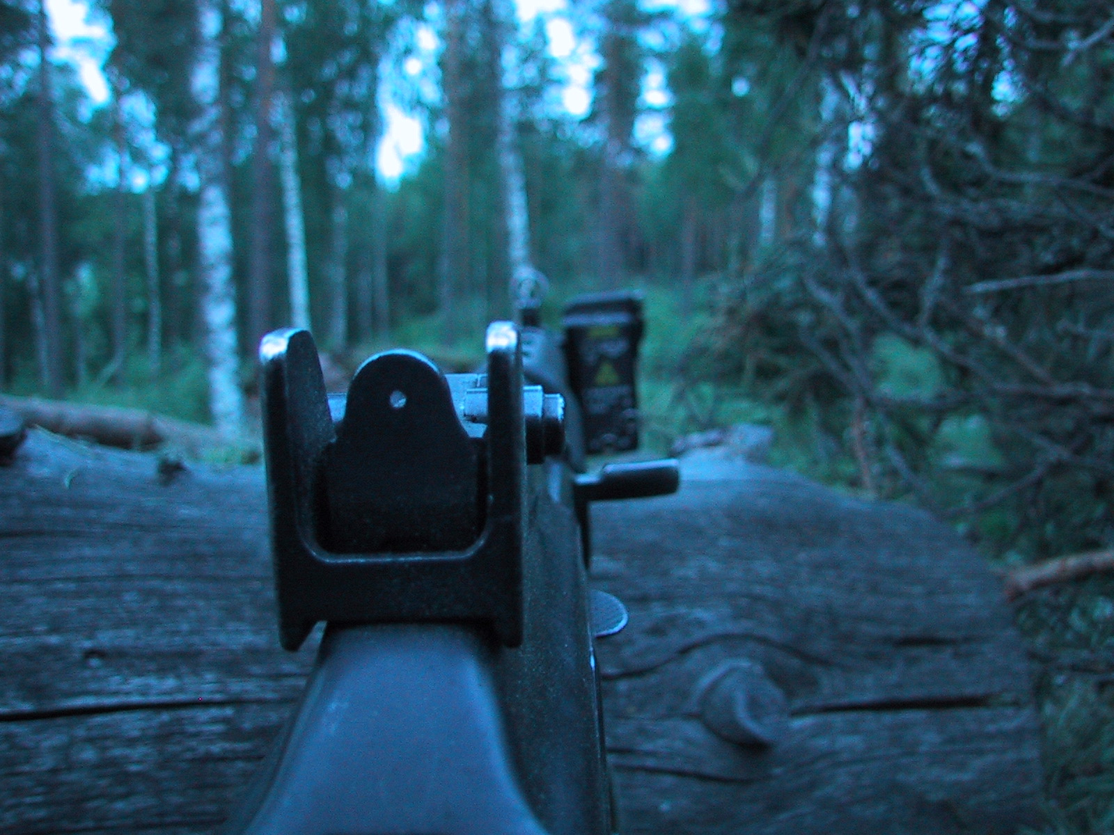 Finnish 7.62x39mm RK 62 assault rifle with attached MILES laser training system. Taken on June 6 2002 in the woods near Helsinki, Finland.